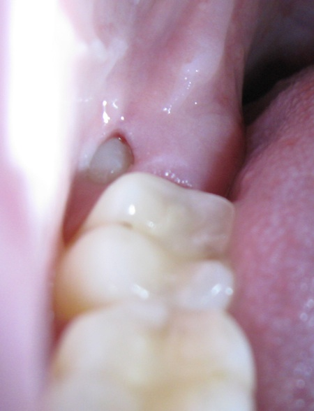 Wisdom tooth coming into the mouth of a 22 year old female.